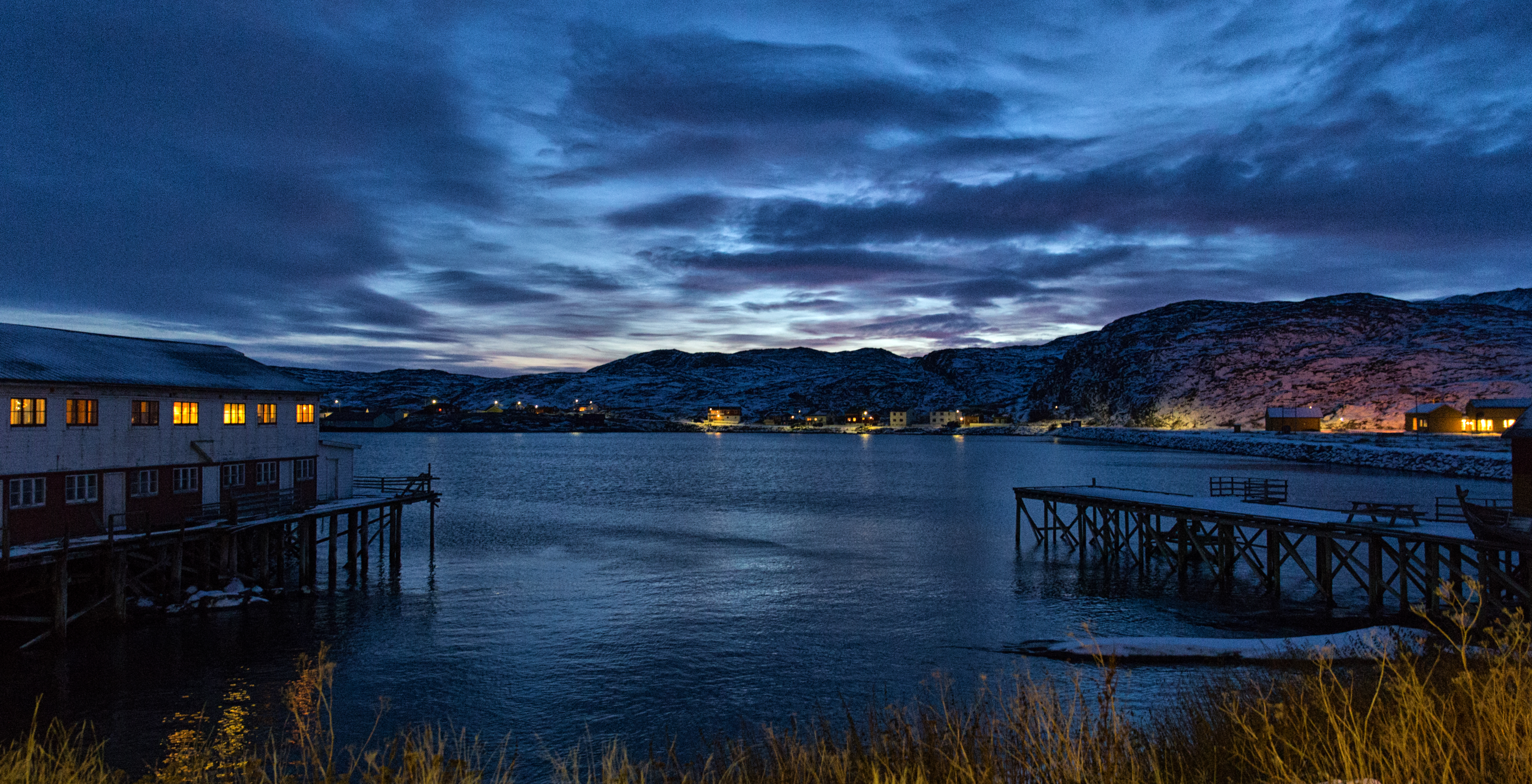 Bugøynes is the only fishing village of Sør-Varanger municipality in Finnmark